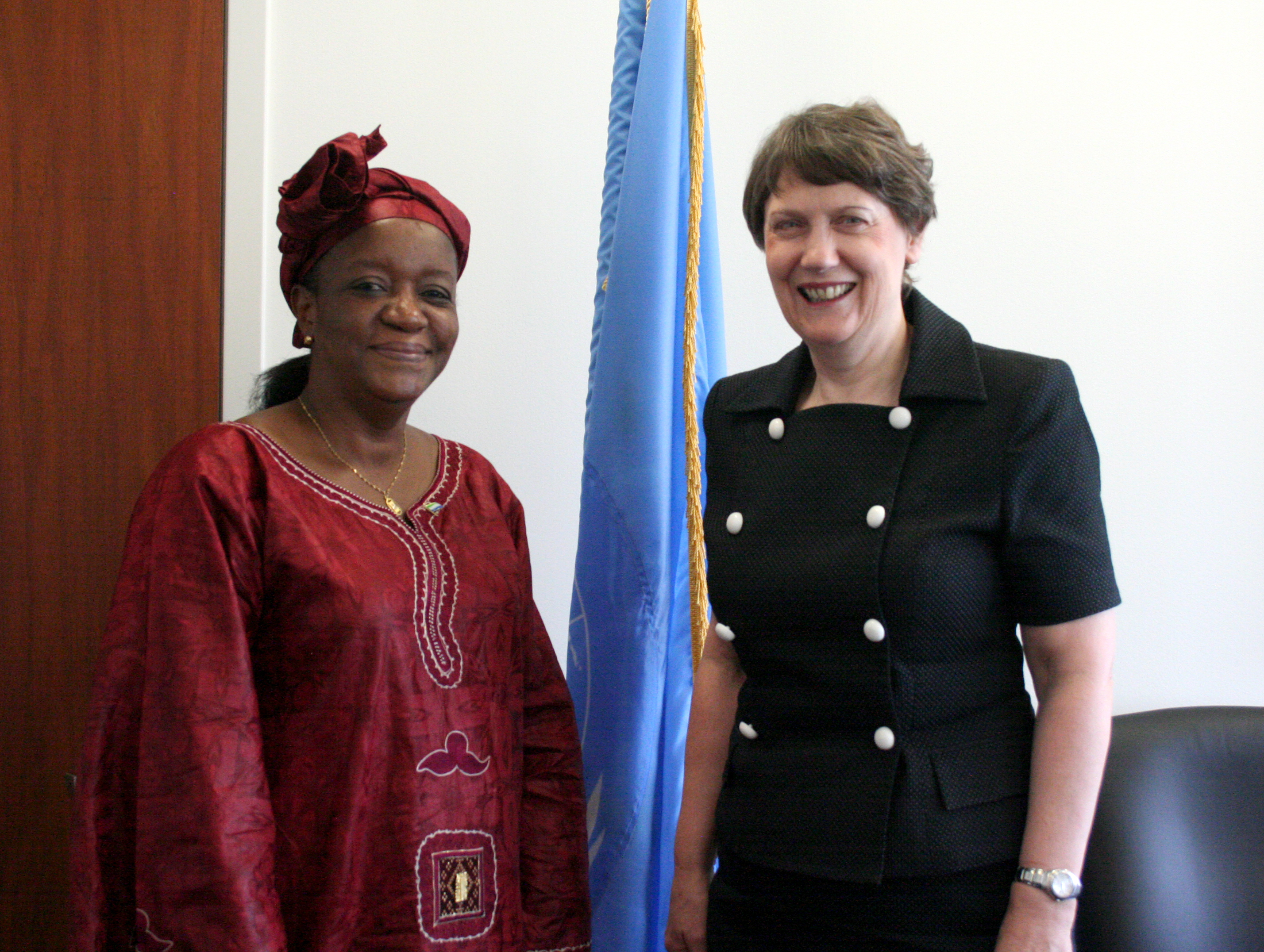 6 July 2010 - UNDP Administrator Helen Clark meets with Sierra Leone’s Minister of Foreign Affairs and International Cooperation Zainab Hawa Bangura at UNDP headquarters in New York. Photo: Maureen Lynch/UNDP